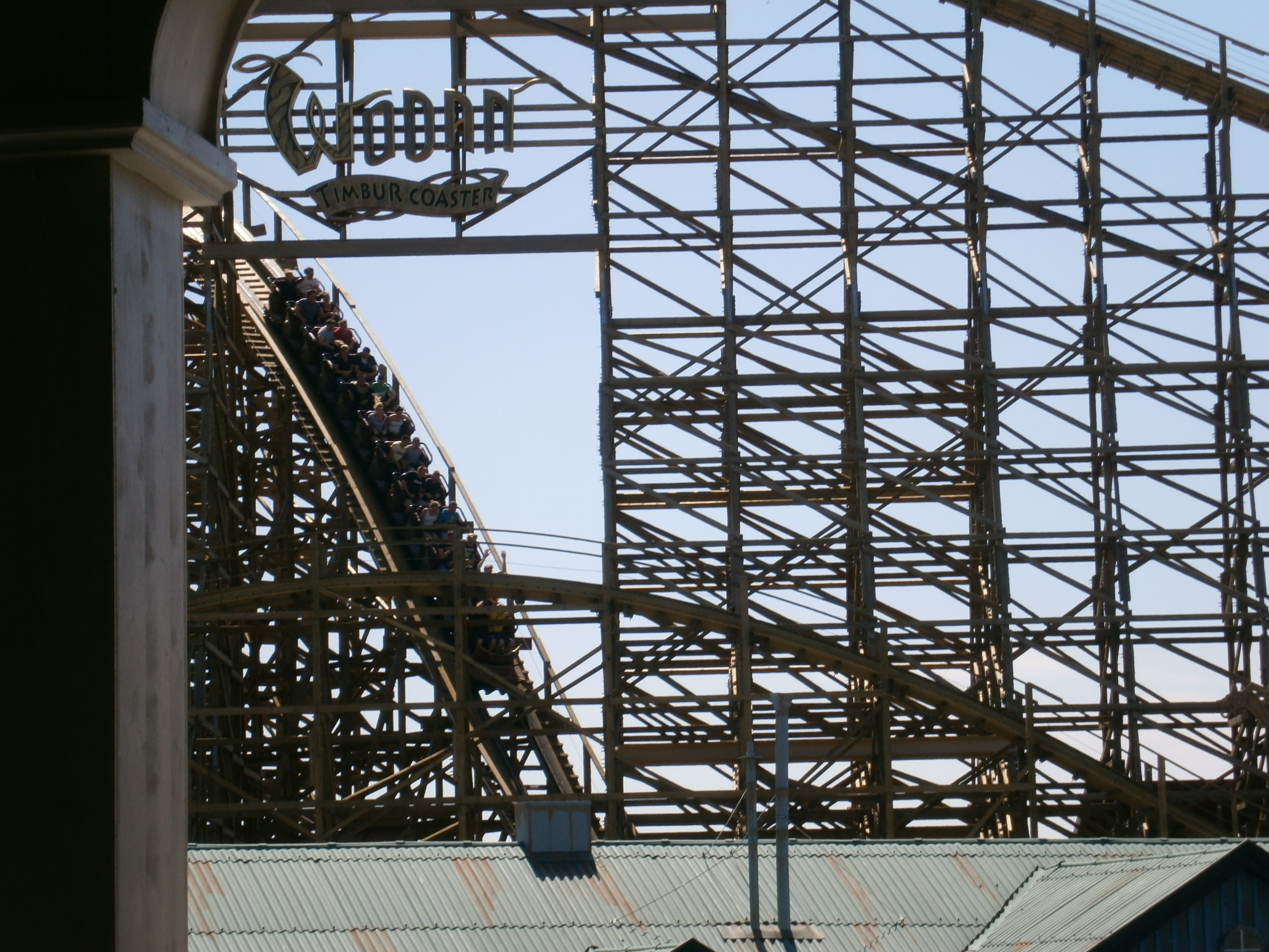 The "WODAN Tiburcoaster" in Europa-Park Rust in action